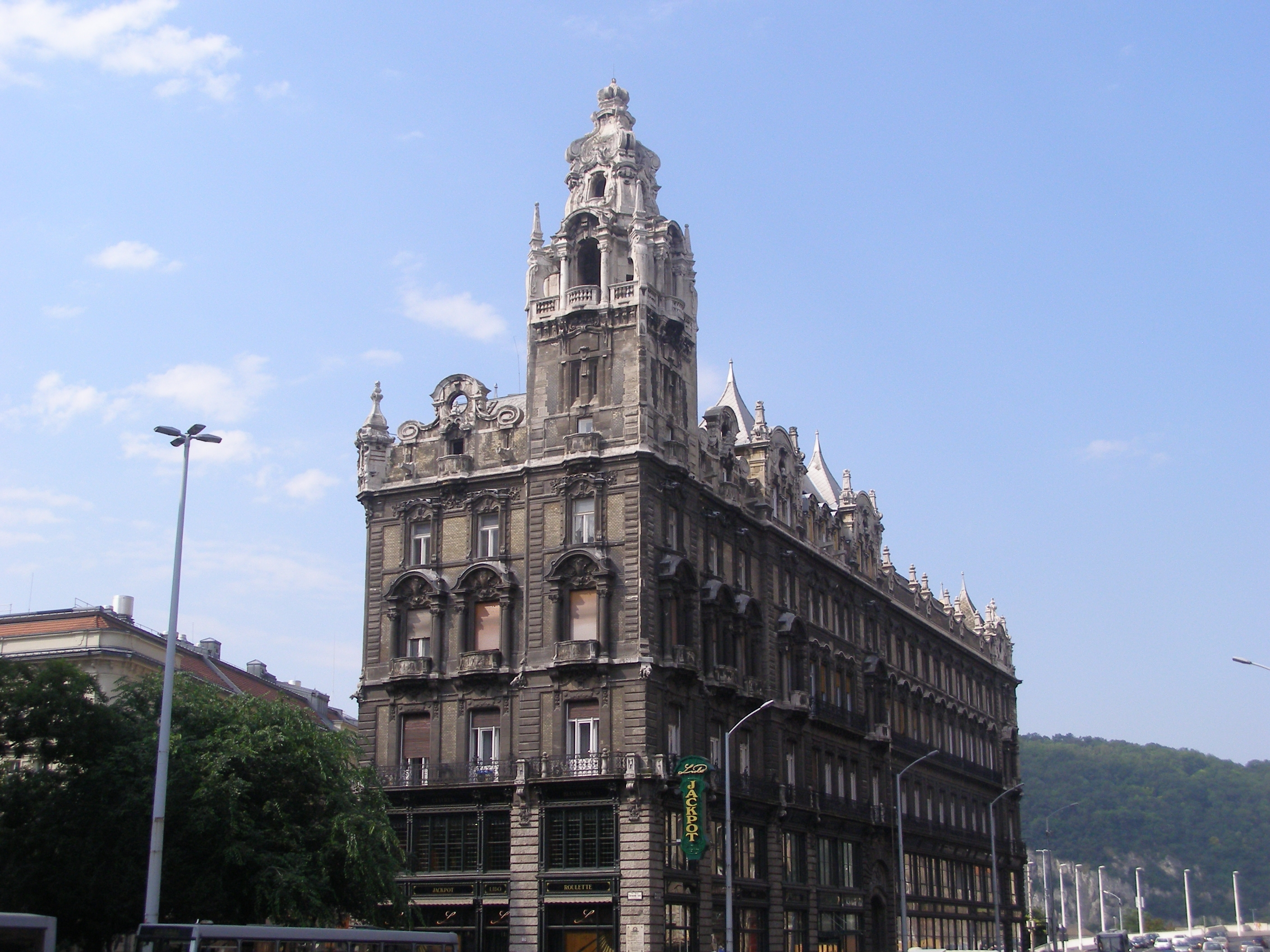 Budapest - Klotild Palace